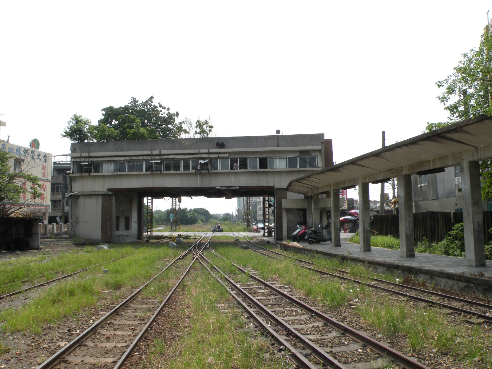 Changcian Station, Sinying, Tainan, Taiwan